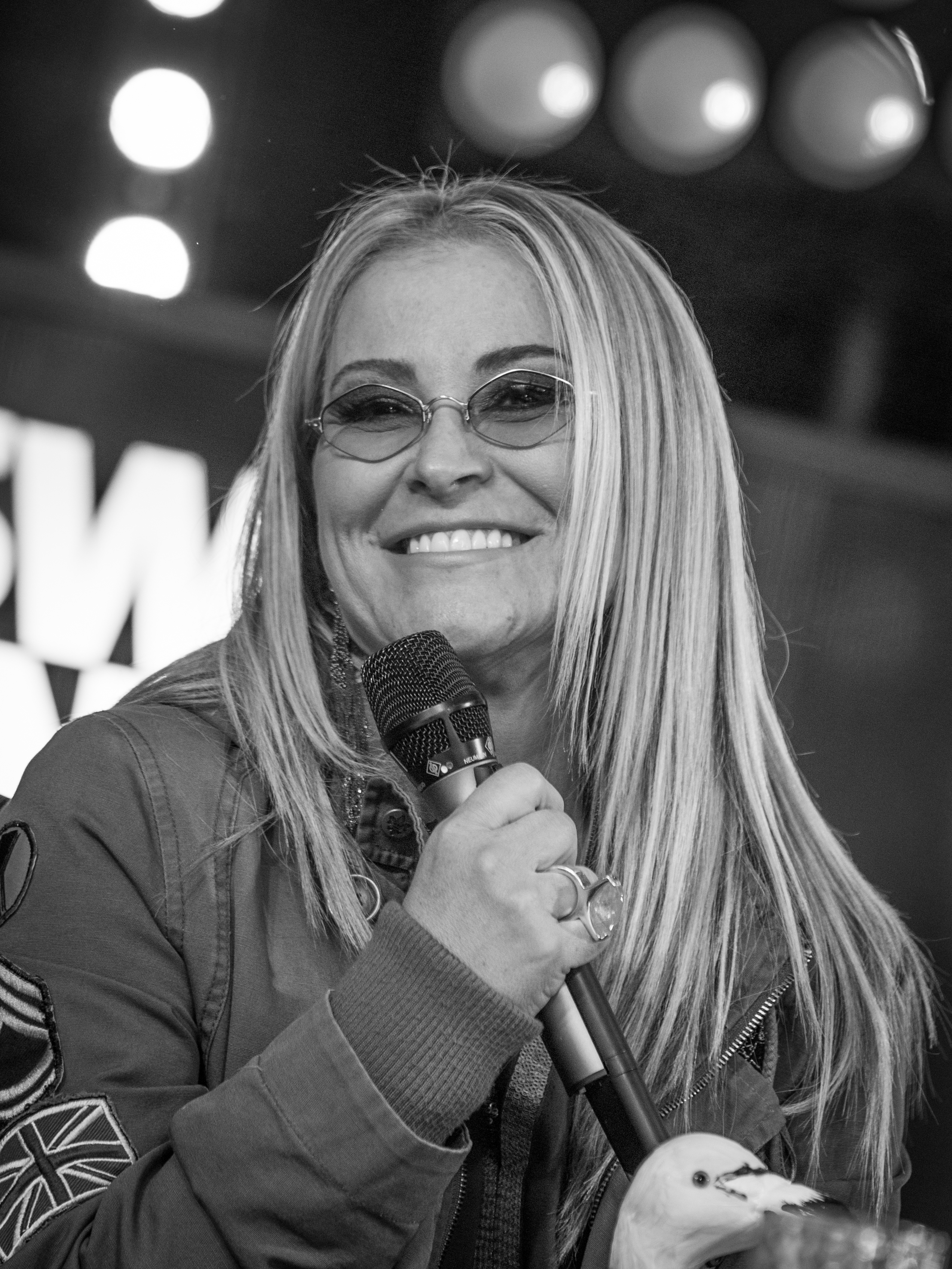 US-American singer-songwriter Anastacia at the SWR3 New Pop Festival 2017